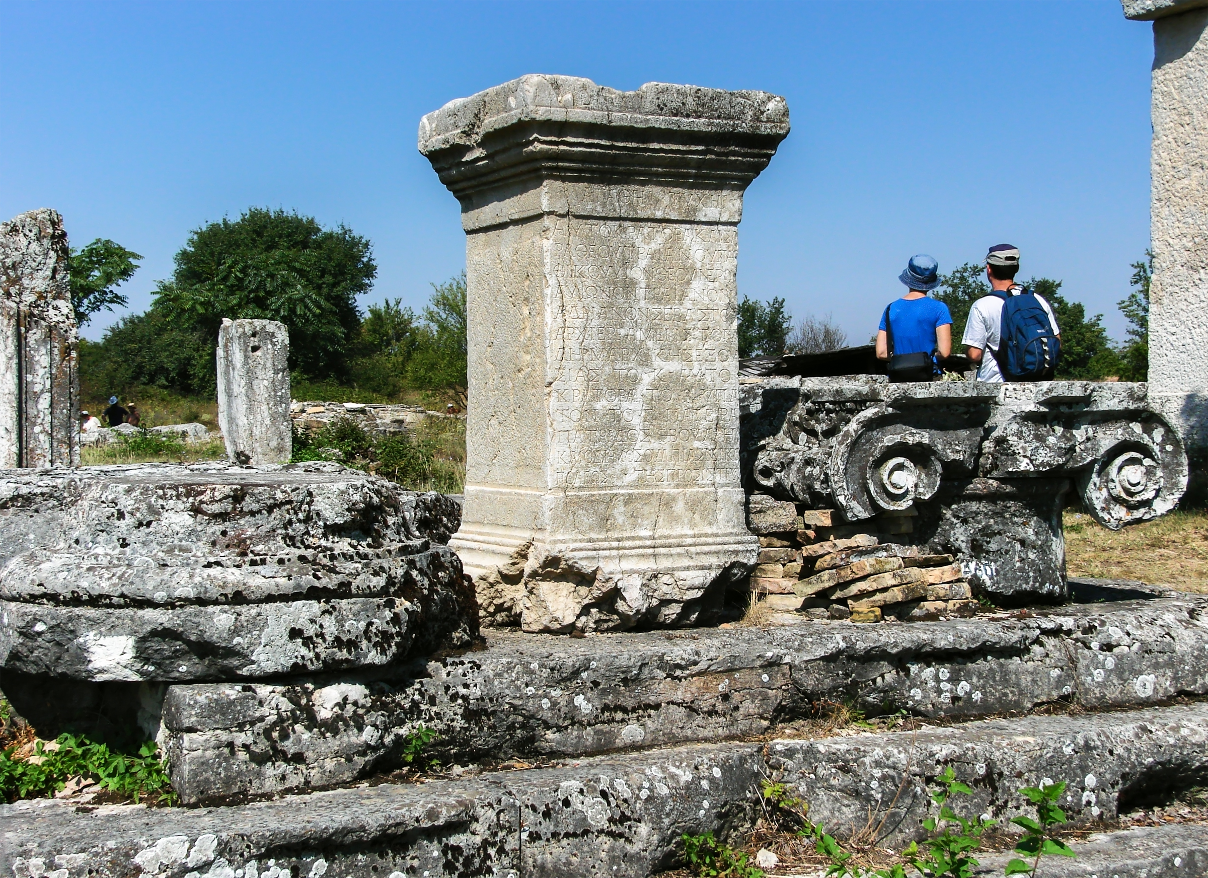 The ancient city Nicopolis ad Istrum, established in 102 AD by Emperor Trajan.